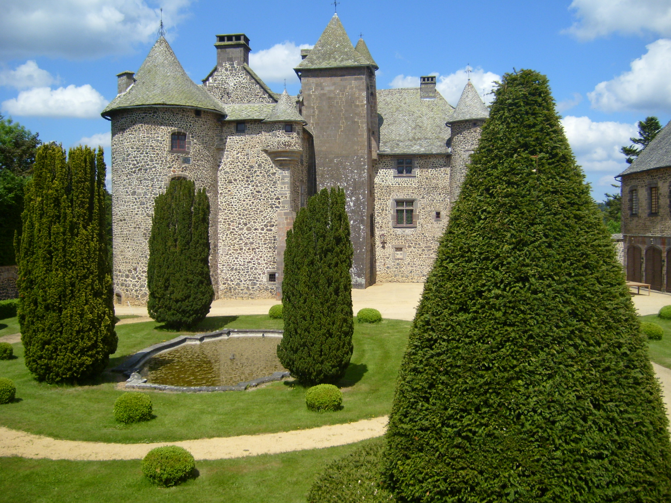 Exterior of Chateau de Cordes